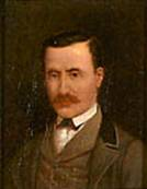 Portrait of Prosper Proux